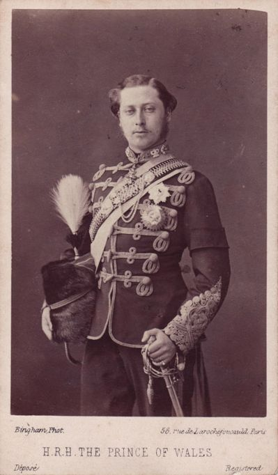 A carte-de-visite portrait of Edward, Prince of Wales, seen here in the uniform of the 10th Hussars, with various decorations on his chest.